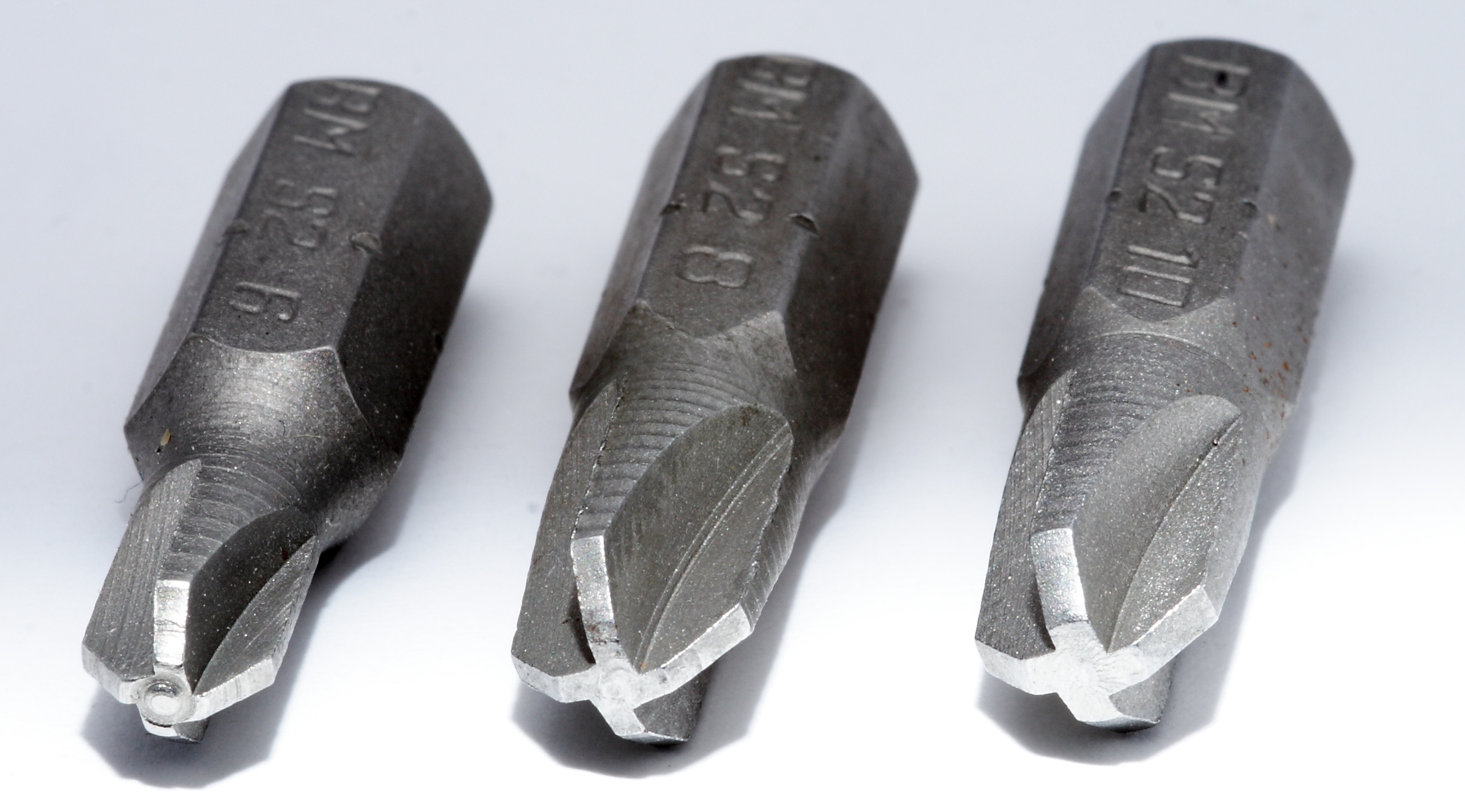 A set of TorqSet bits. Look carefully! These are not Philips bits!